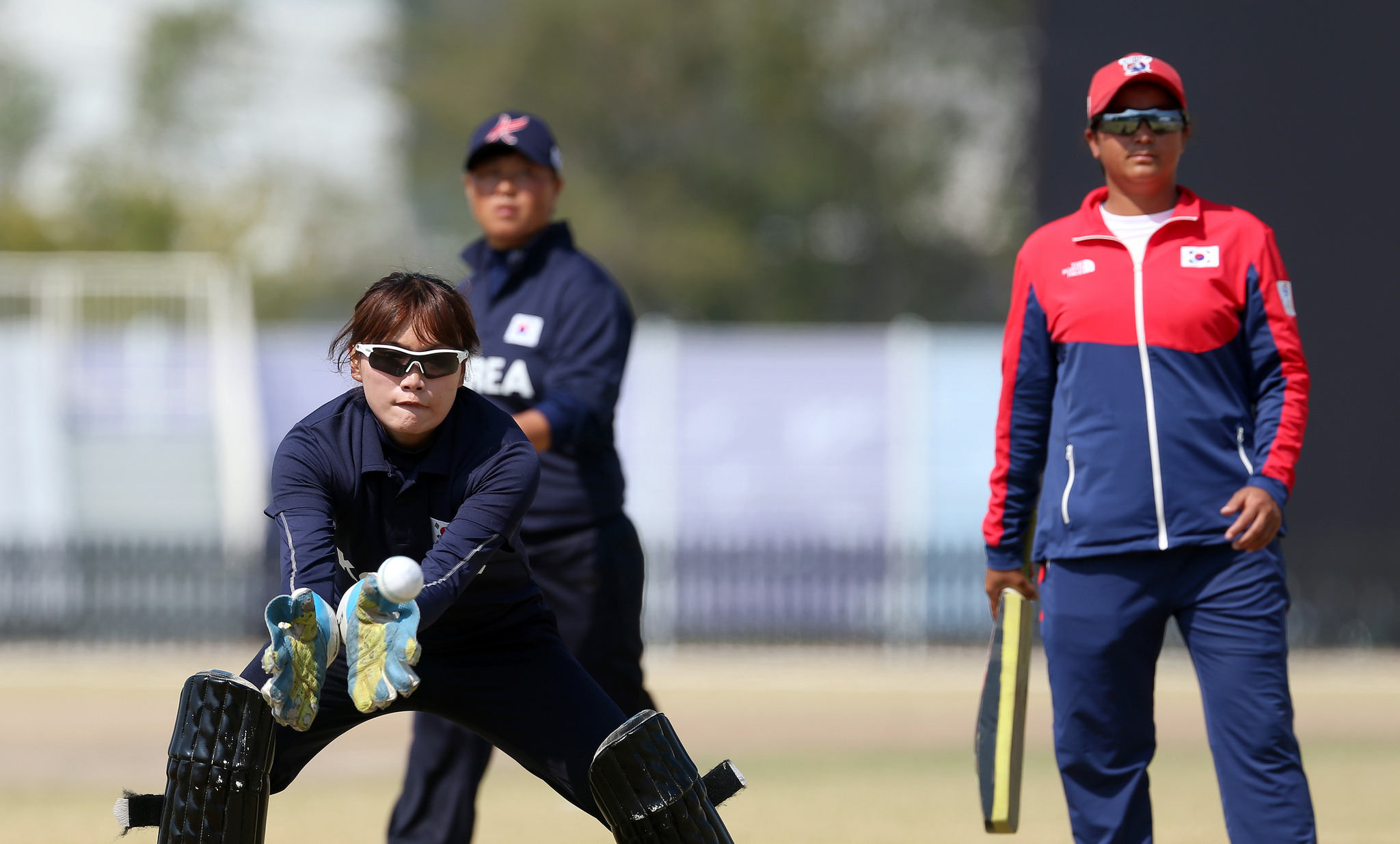 Cricket, 2014 Asian Games